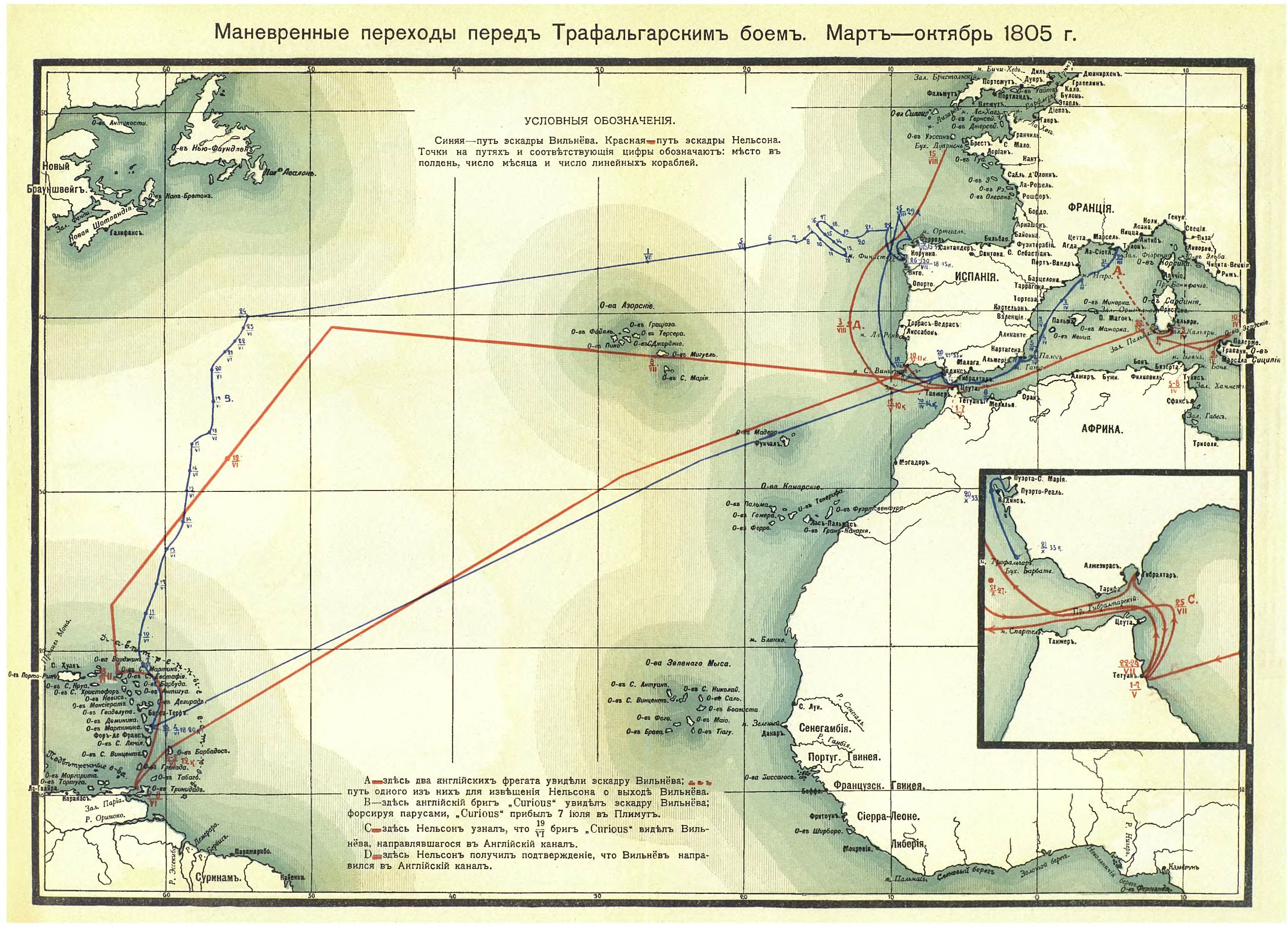 Nelson go to Trafalgar